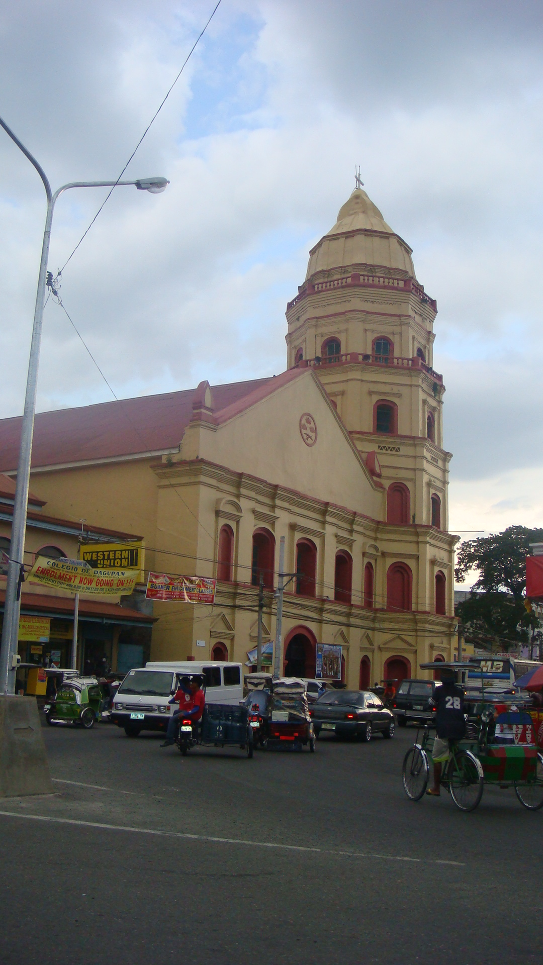 Epiphany of the Lord Parish in Lingayen, Pangasinan